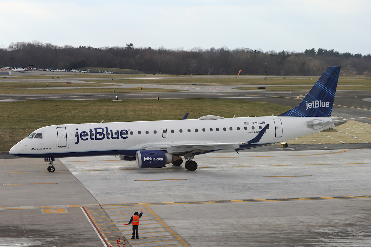 A JetBlue Airways E190 at Westchester County Airport.